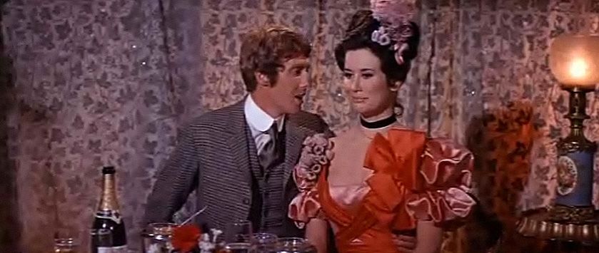 Screenshot of Michael Crawford and Marianne McAndrew from the trailer for the film Hello, Dolly! (film).